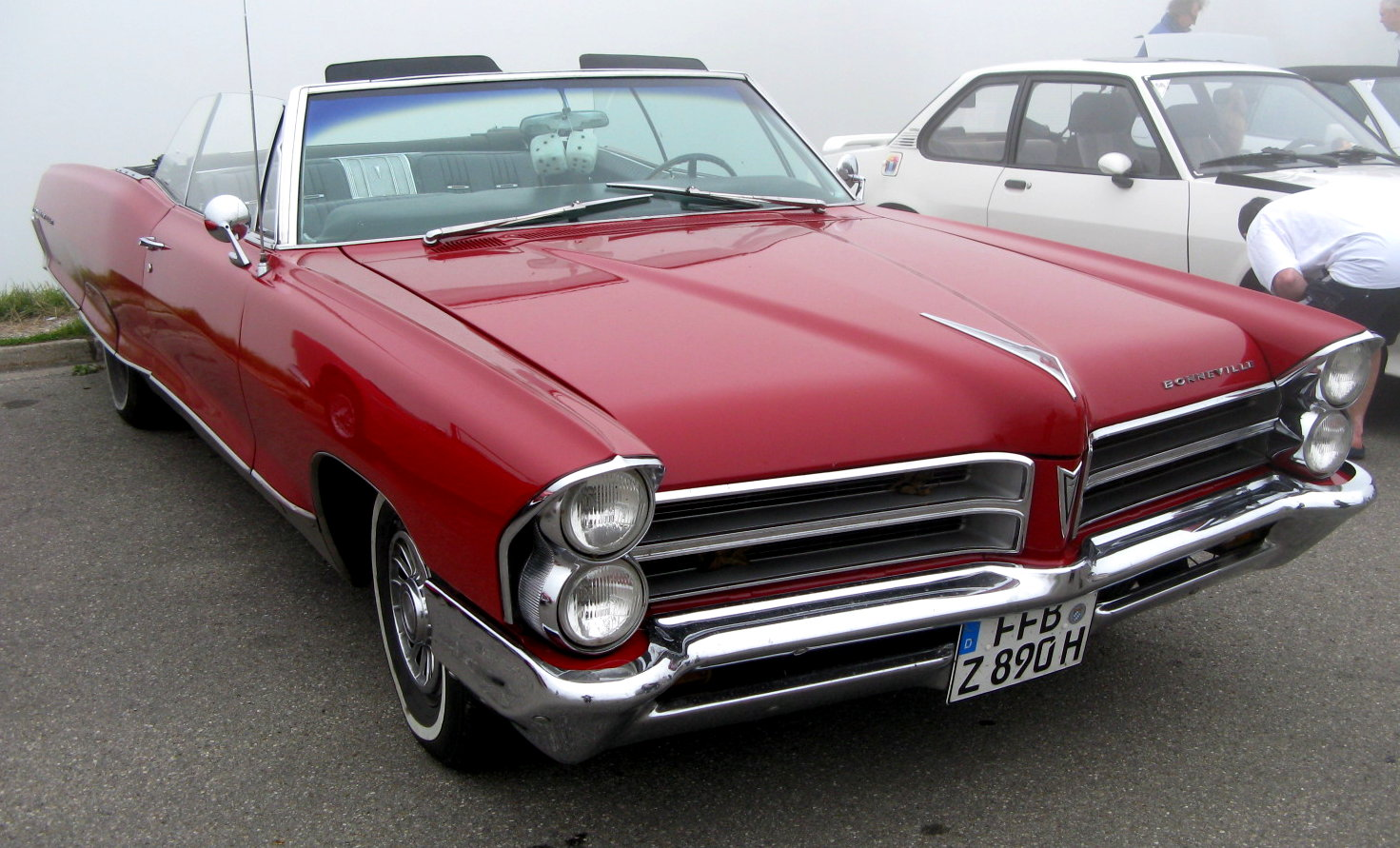 1965 Pontiac Bonneville